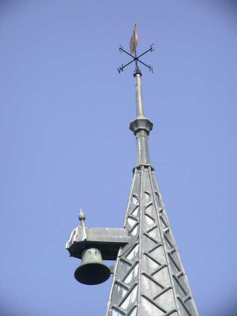 Church of England parish church of St Mary Magdalene, Ickleton, Cambridgeshire: the top of the spire, showing the weathercock and Sanctus bell